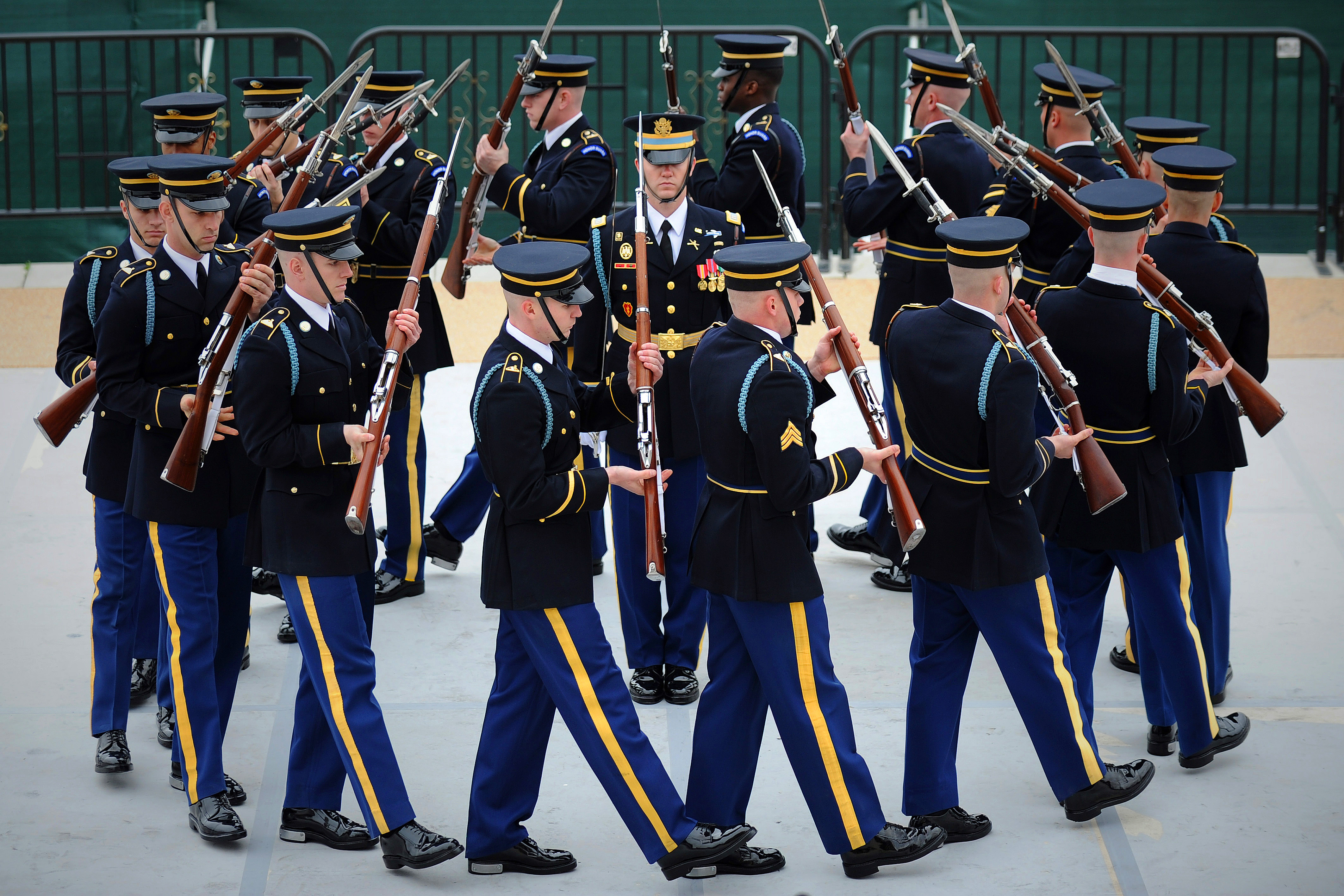 The U.S. Army Drill Team displays a rifle performance in the 4th Annual Joint Service Drill Exhibition, during the National Cherry Blossom Festival at the Jefferson Memorial in Washington, D.C., April 9, 2011.